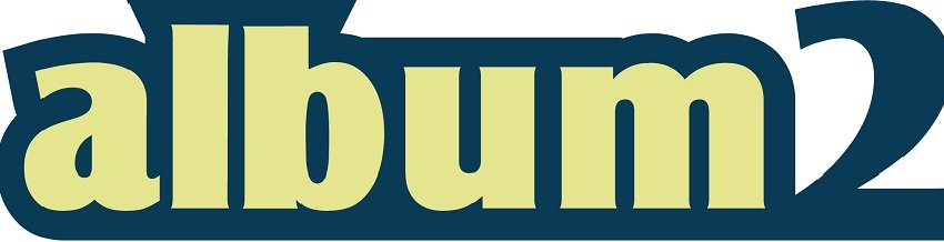 Logo for Album2